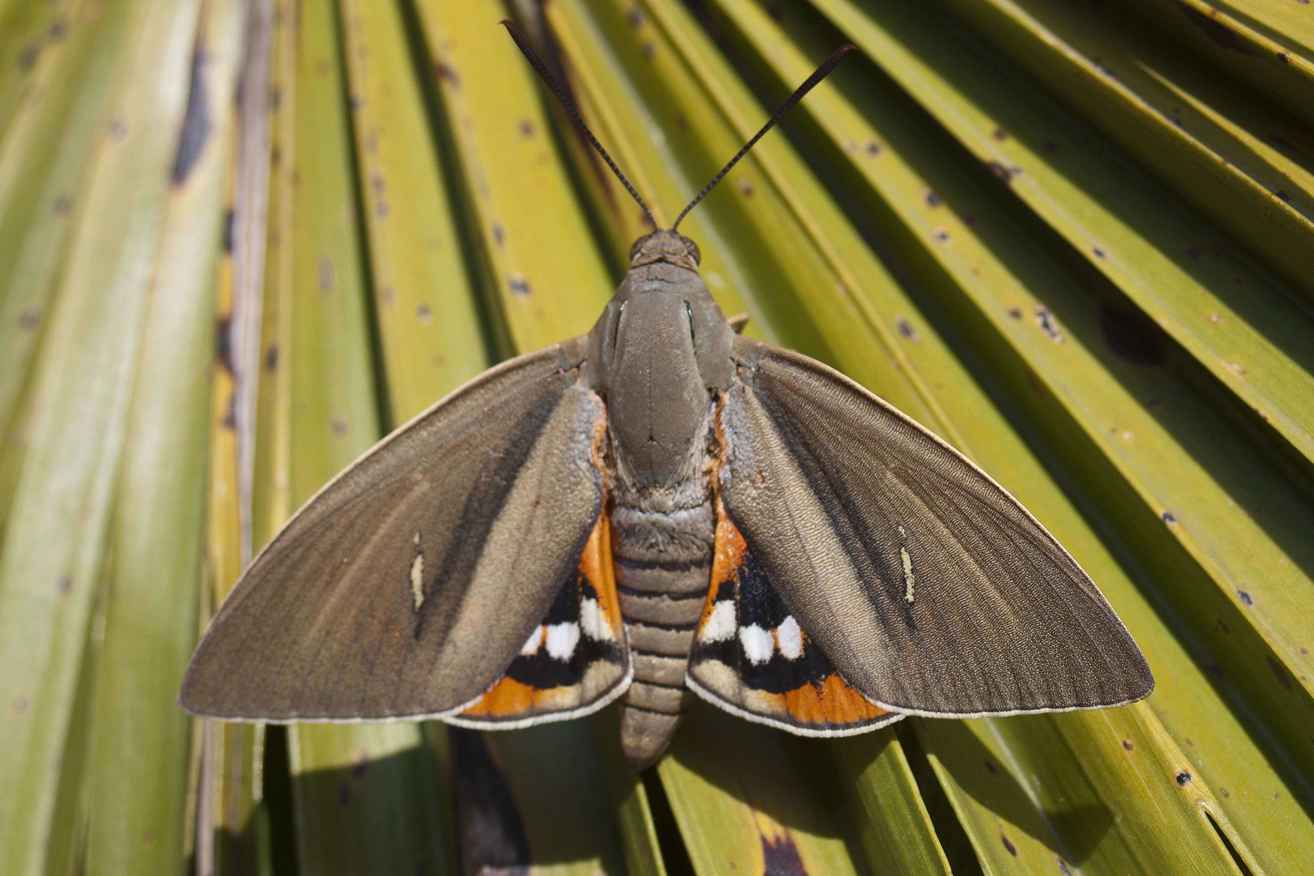 Paysandisia archon, butterfly ravishing of palm trees.